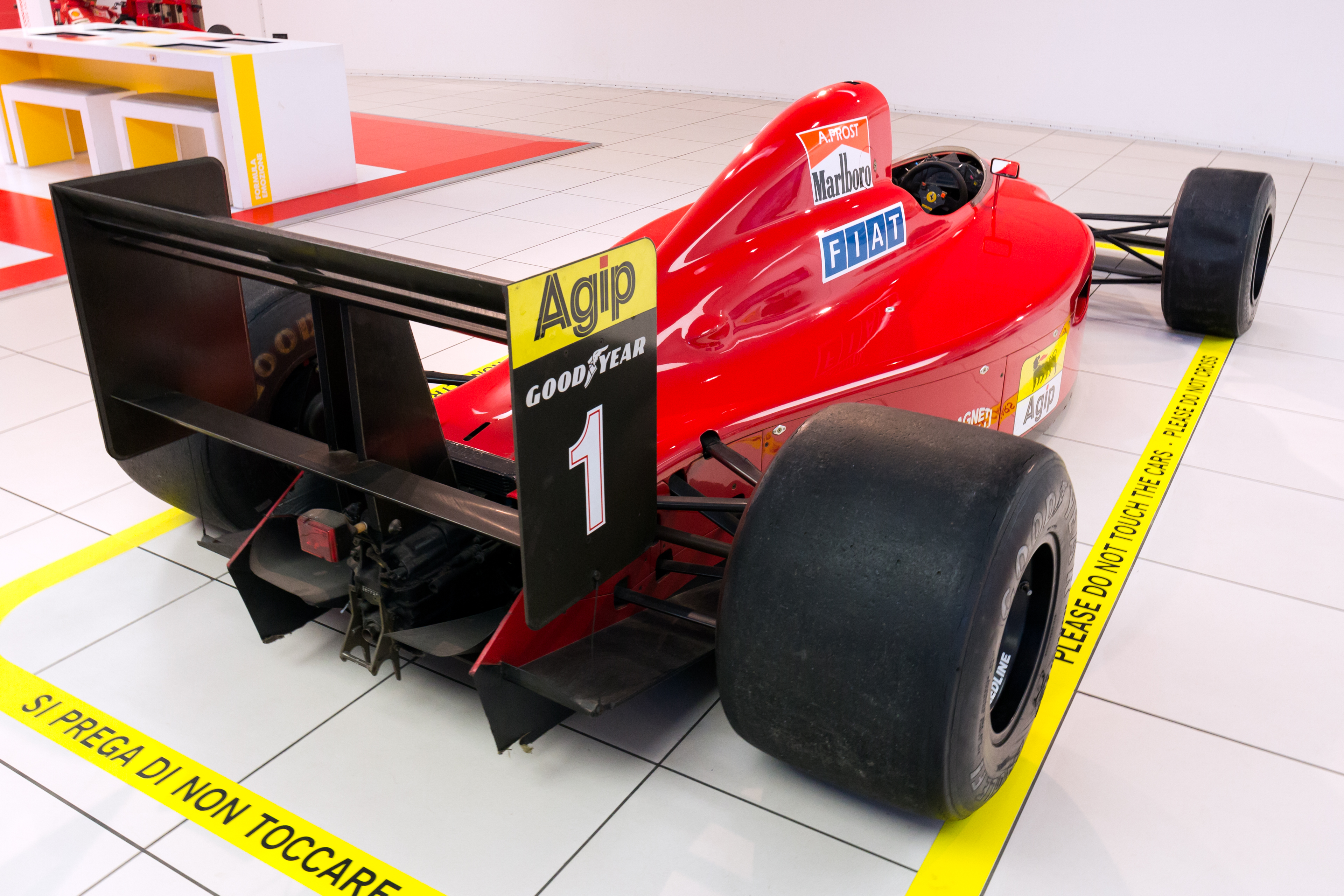 Ferrari 641/2 (chassis number 117)